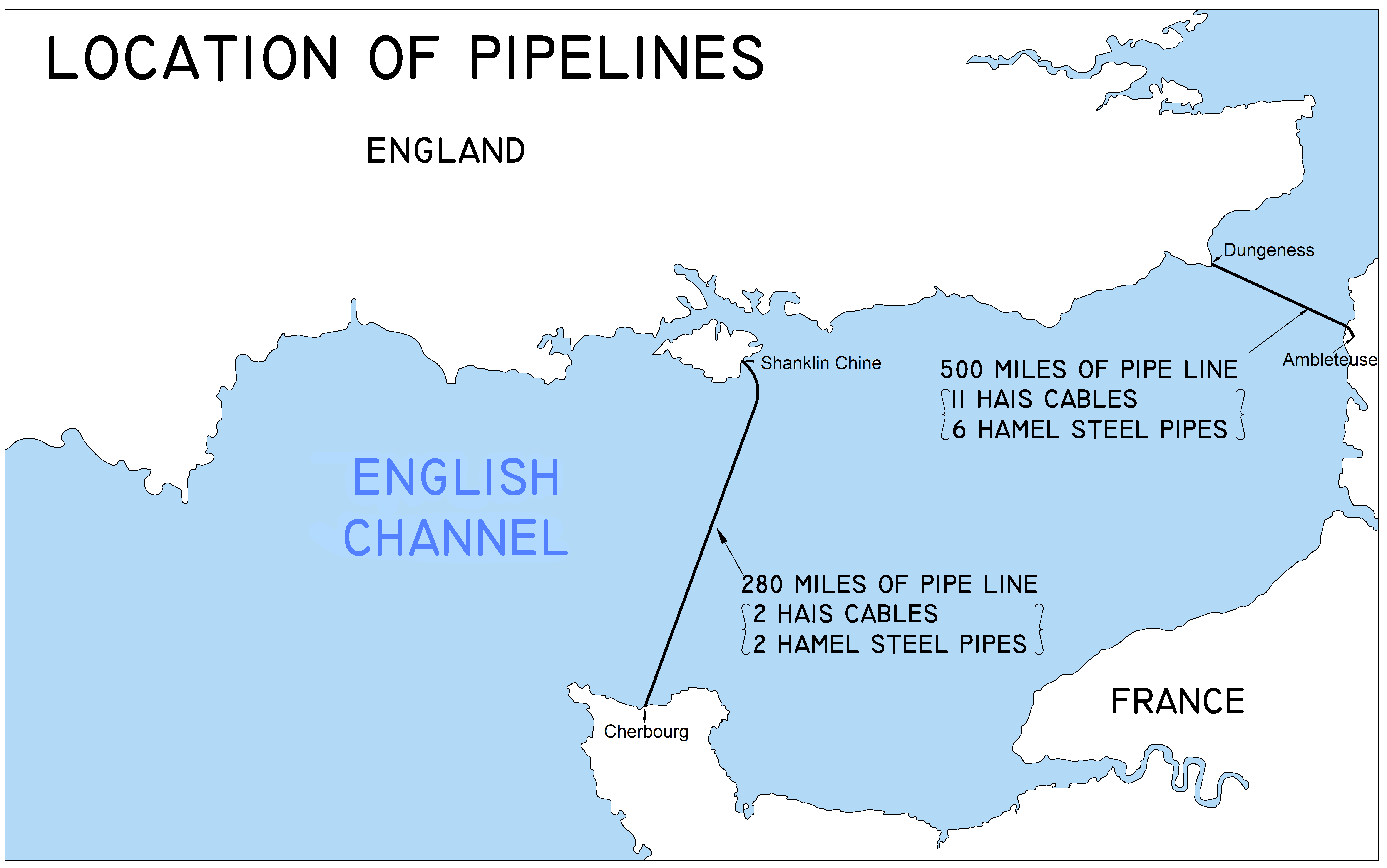 Location of Pipelines for Operation PLUTO (Pipe-Lines Under The Ocean). This is sheet 20 of 20 from the Historic American Engineering Record VA-132 (SS Arthur M. Huddell), National Park Service, 2009. This is slightly modified from the original to only display and identify the pipeline route with start/end points.